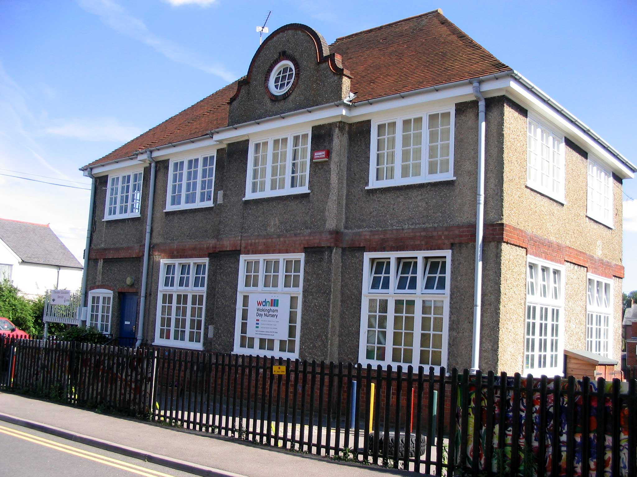 The annexe to Wescott School in Wokingham, Berkshire, England. The annexe is now used by Wokingham Day Nursery.